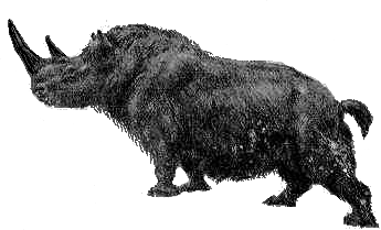 silhouette of the Wolly Rhinoceros